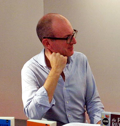 Loren Stein, 2014